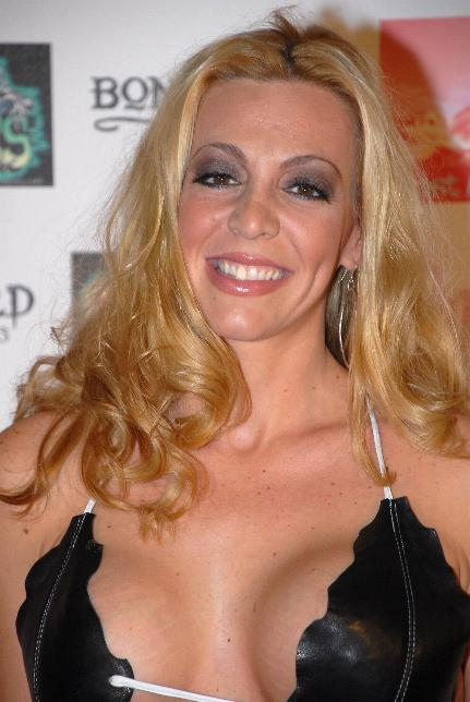 January 8, 2008 - "Pink Eye" premiere, Slim-Fast fashion show